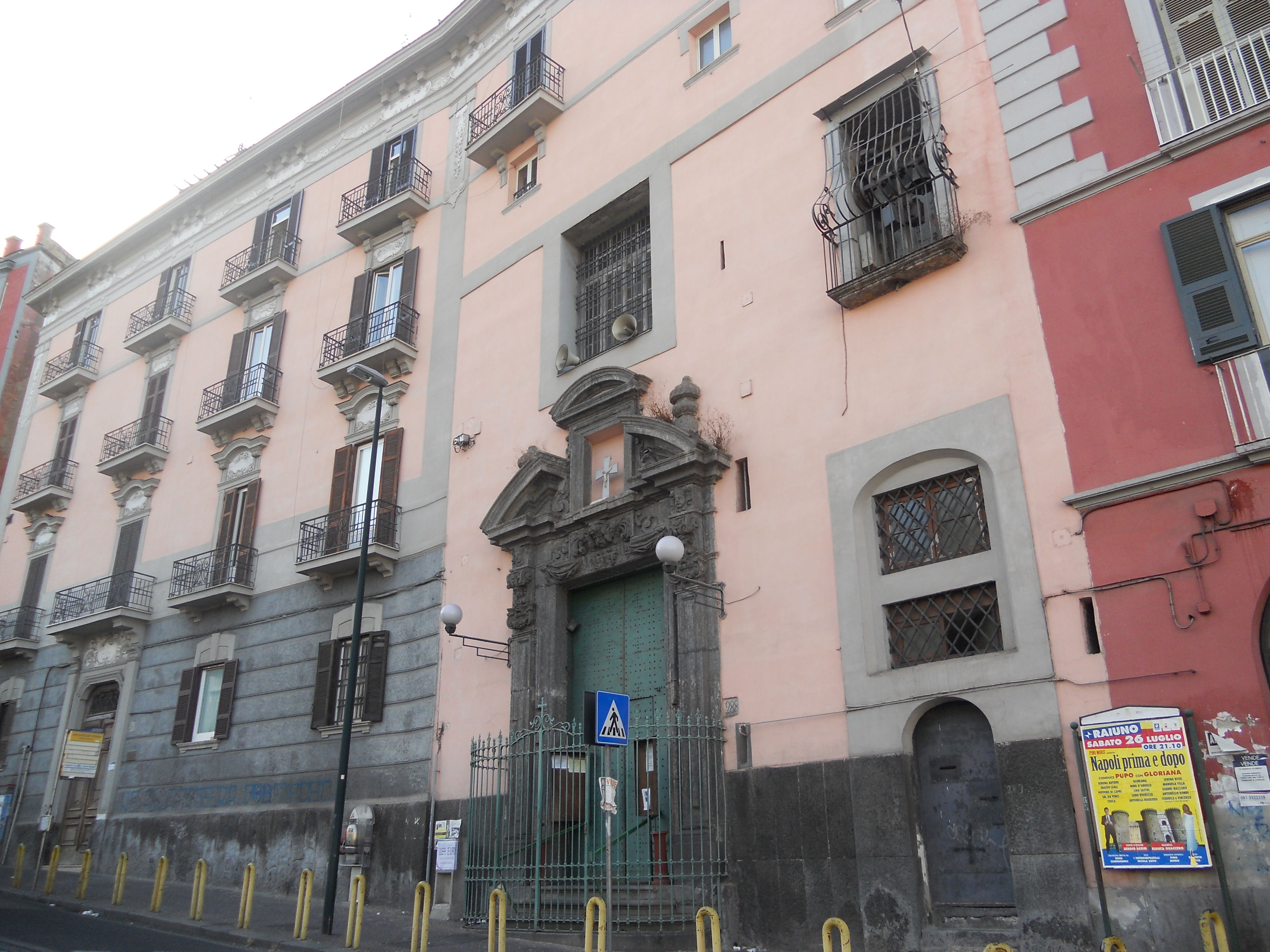 Church of S. Geltrude (Naples)